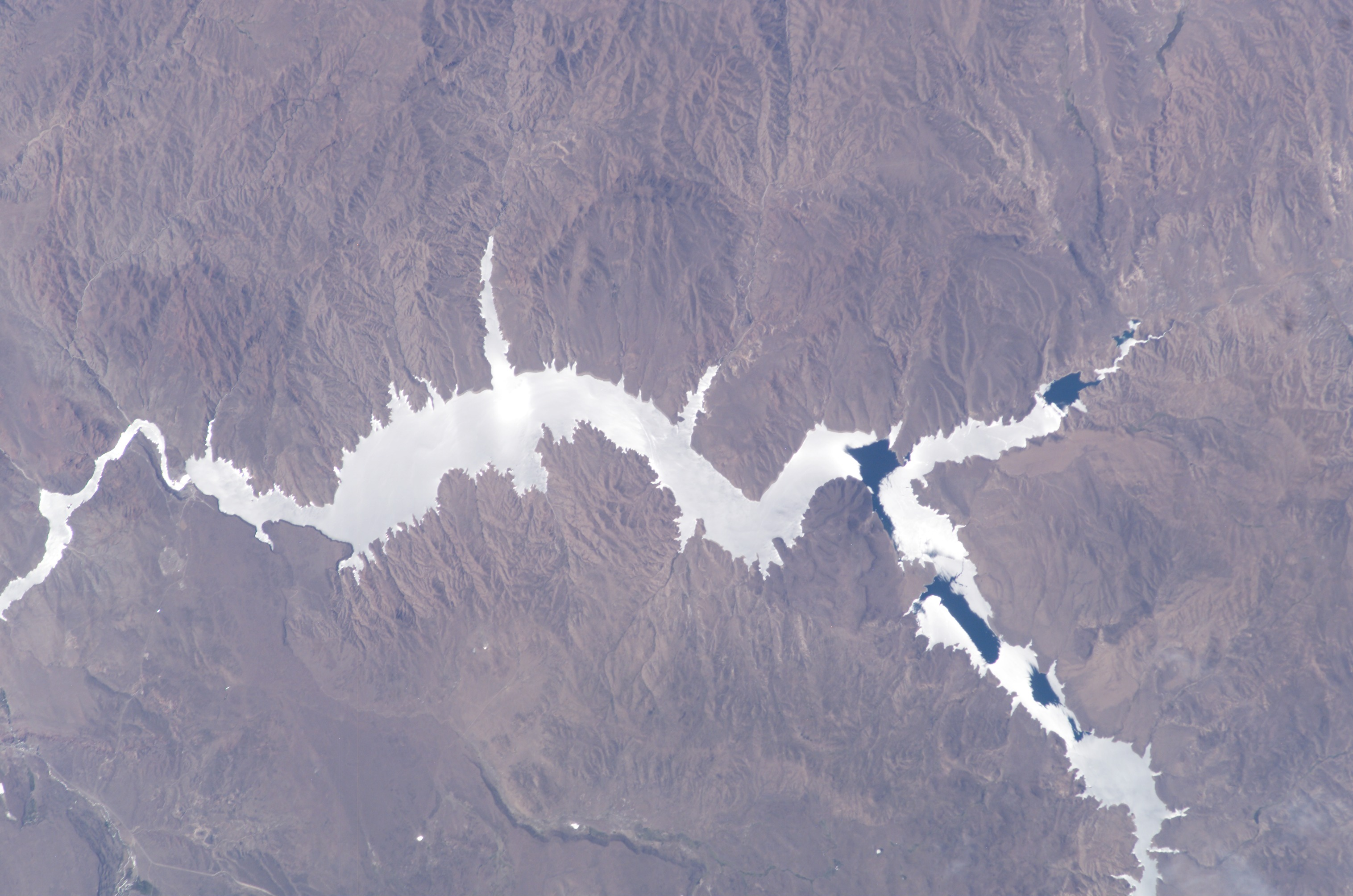 The Limay River in northern Patagonia, Argentina. In the picture, the reservoir of Piedra del Águila.